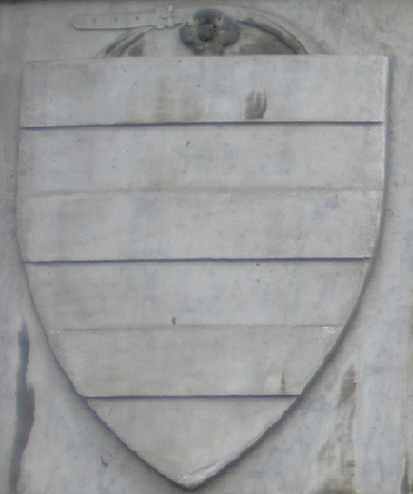 Ancient coat of arms of the Amidei on the Basilica of Santa Maria Novella.